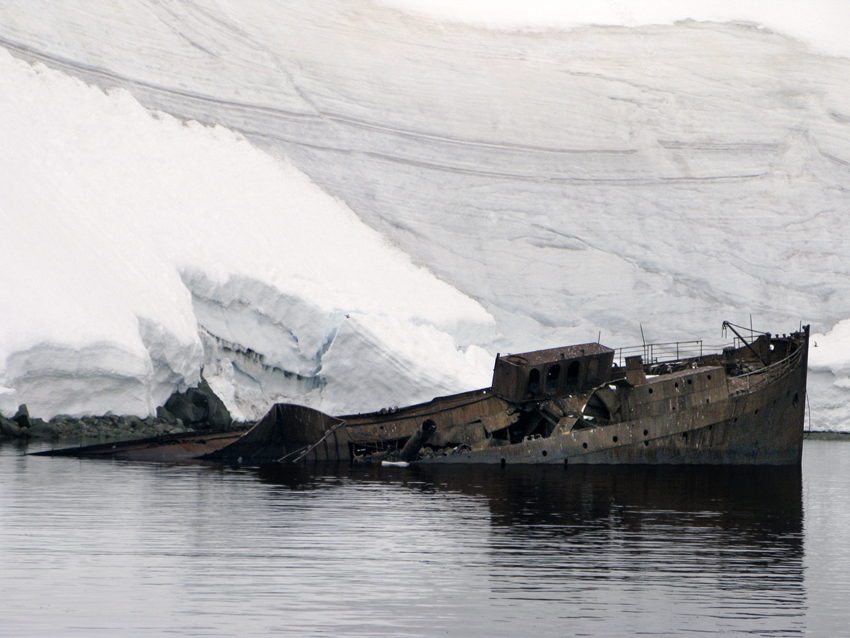 The wreck of the whaling factory ship Guvernøren in Foyn Harbor at Entreprise Island, Antarctic peninsula